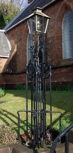 Skelmorlie Church